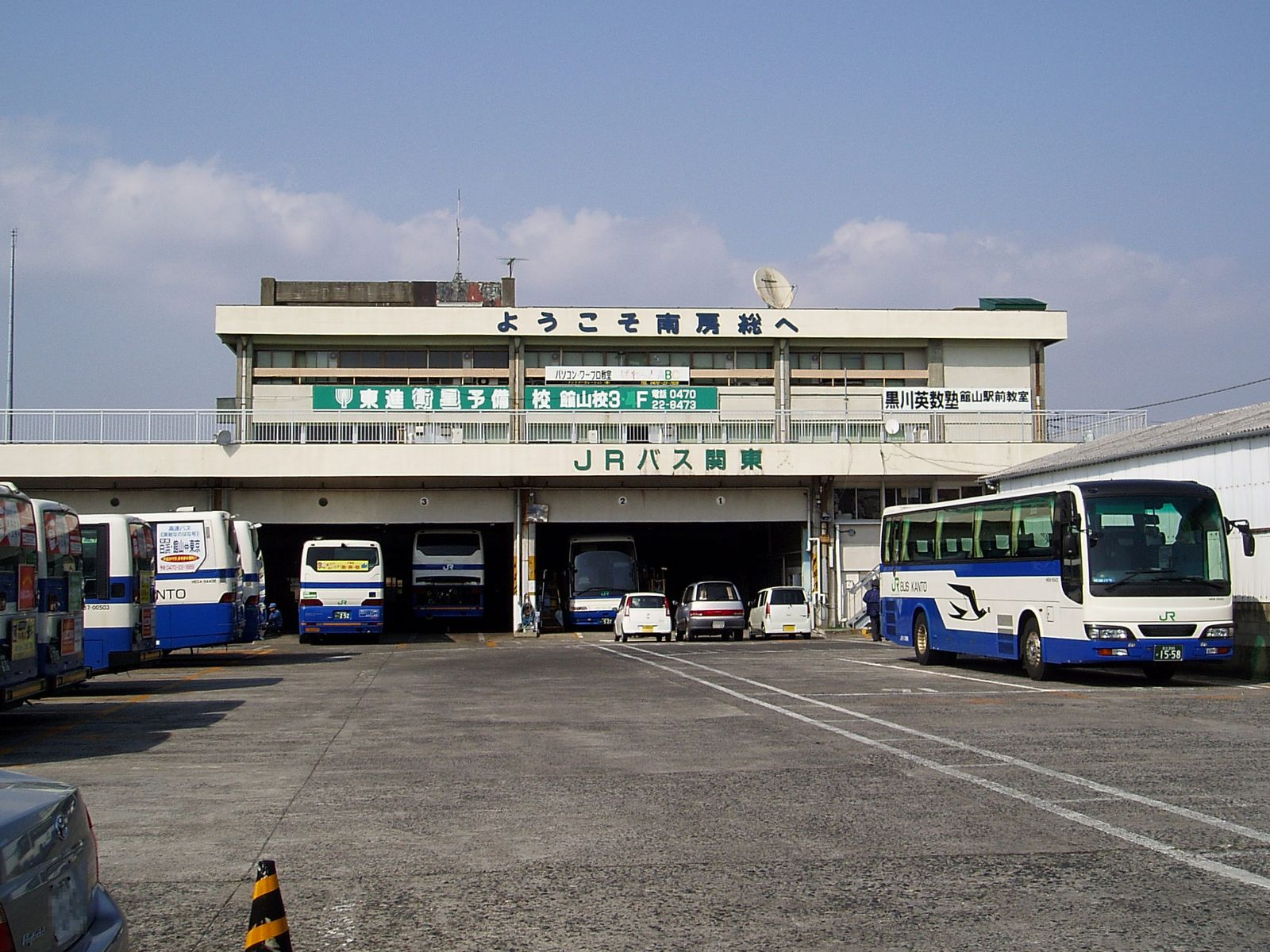 JR Bus Kanto Tateyama Branch